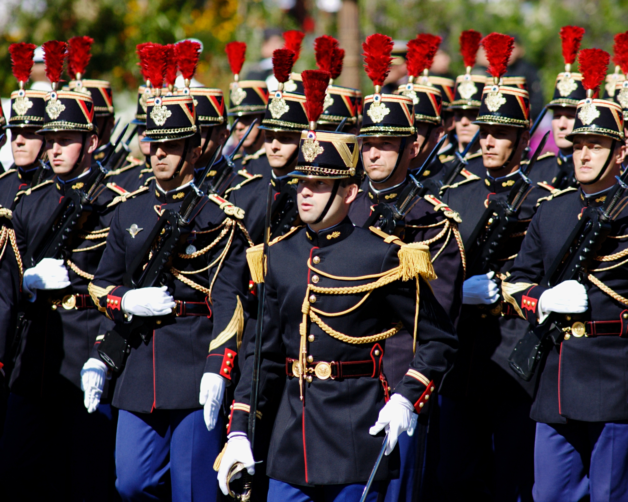 First Infantry Regiment of the Garde Républicaine, Bastille Day 2008 military parade on the Champs-Élysées, Paris.